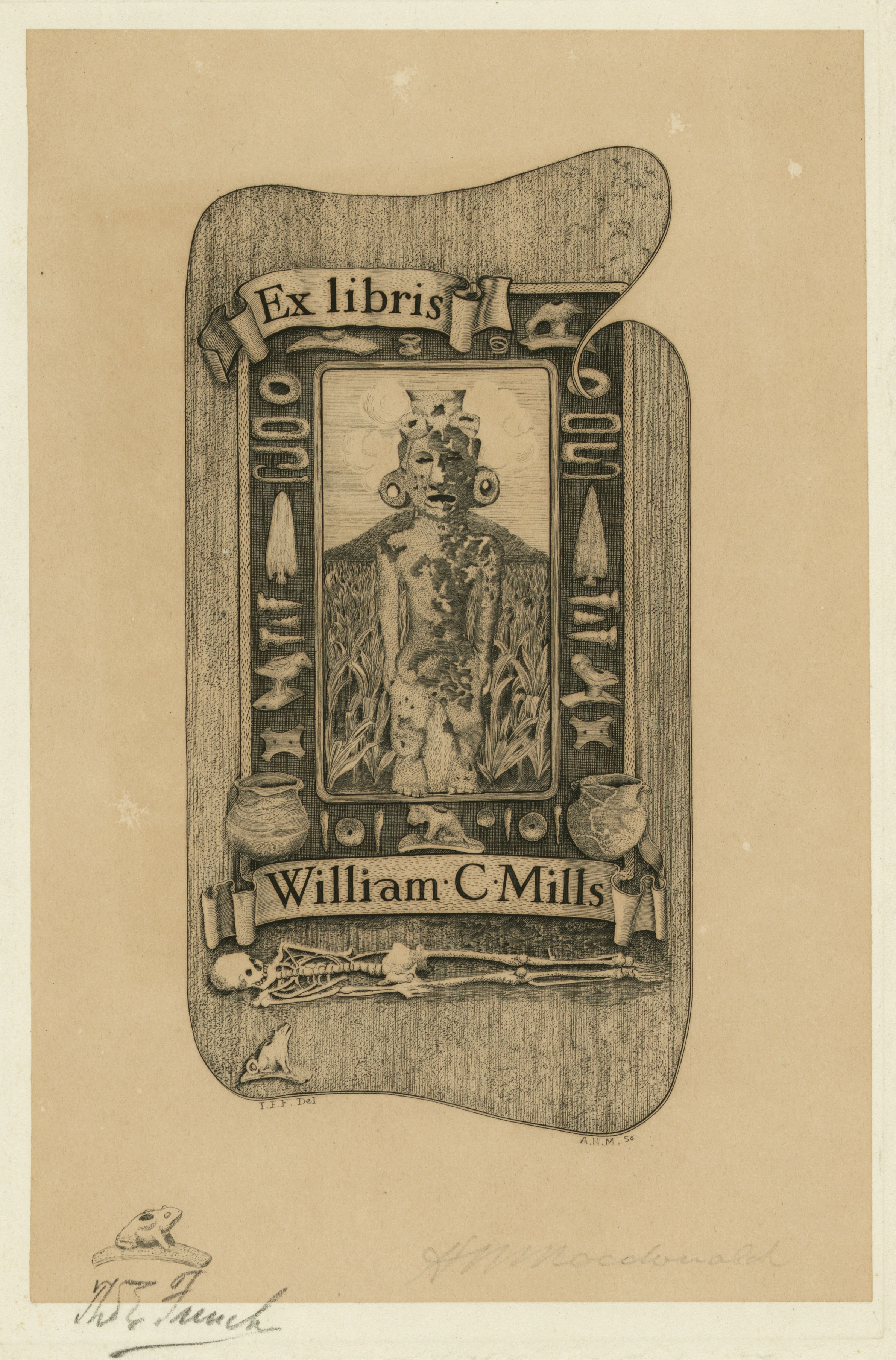 Bookplate of American archaelogist and museum curator William Corless Mills (1860-1928). Print shows archaeological symbols, artifacts, and a skeleton. Zinc etching, chine-collé, designed by Thomas Ewing French (1871-1944) and engraved by Arthur Nelson Macdonald (1866-1940). Both artists' signatures and a remarque appear below the image. Further details about this print may be found in the manuscript letter from Thomas Ewing French to Ruthven Deane at the Library of Congress.